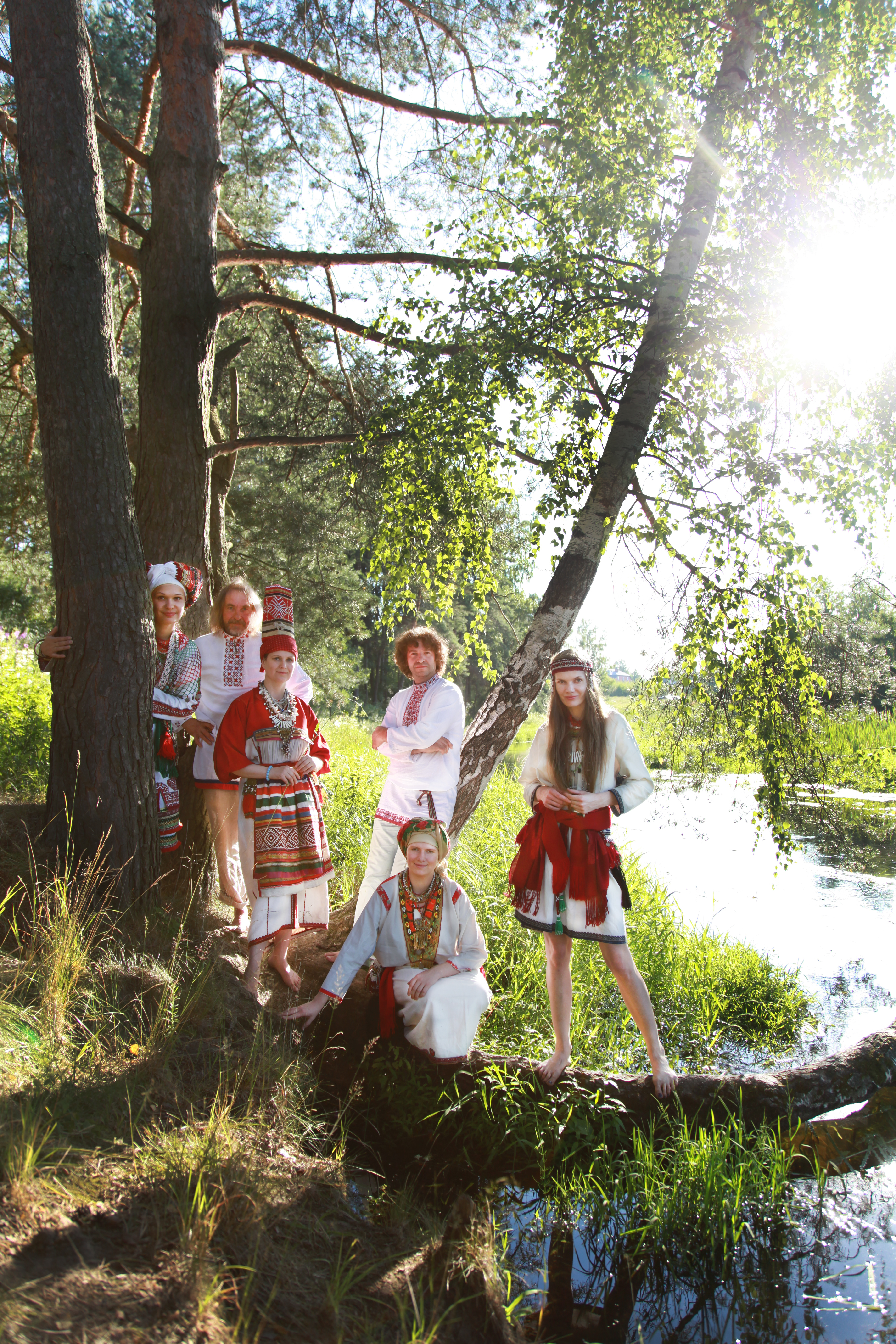 Mordovian band OYME (Ойме).